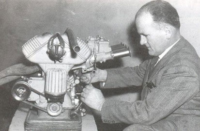 Ilario Bandini and Bandini 1000 engine, italy '60